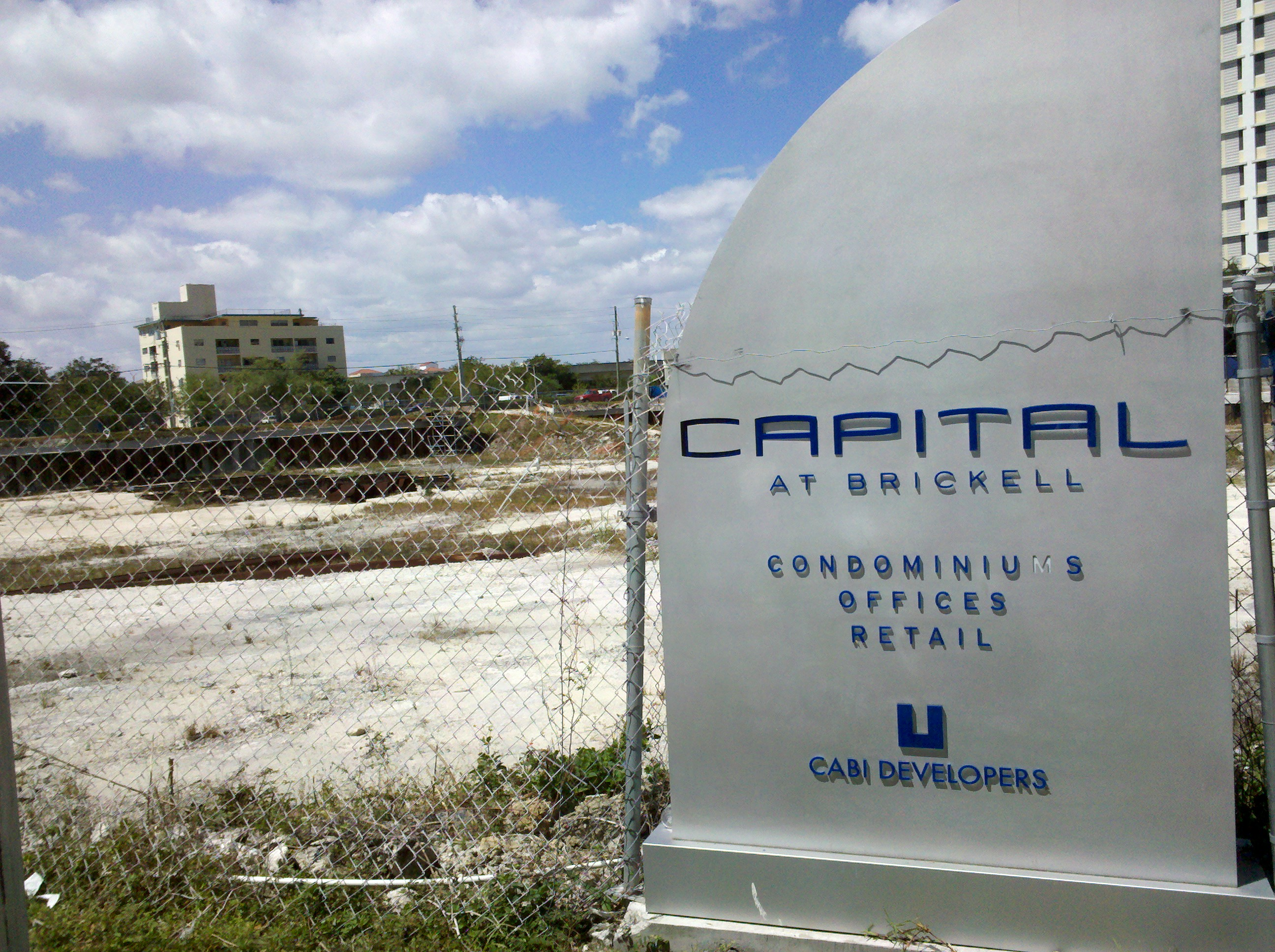 Capital at Brickell, Miami dead construction site in March 2011.